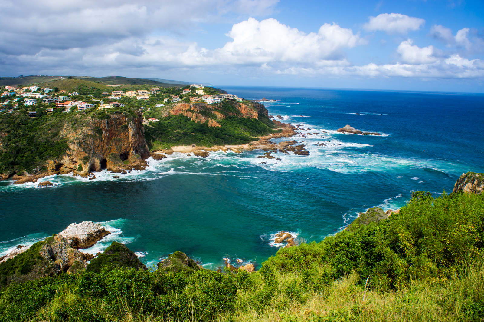 East Head, Knysna Heads from Featherbed Nature Reserve Knysna This media shows a South African Protected Site with SAHRA file reference 9/2/052/0022/1. This media shows a South African Protected Site with SAHRA file reference 9/2/052/0022/2.